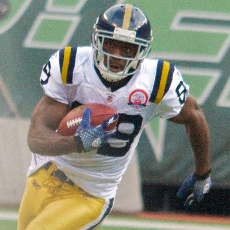 Jerricho Cotchery of the New York Jets running with the ball